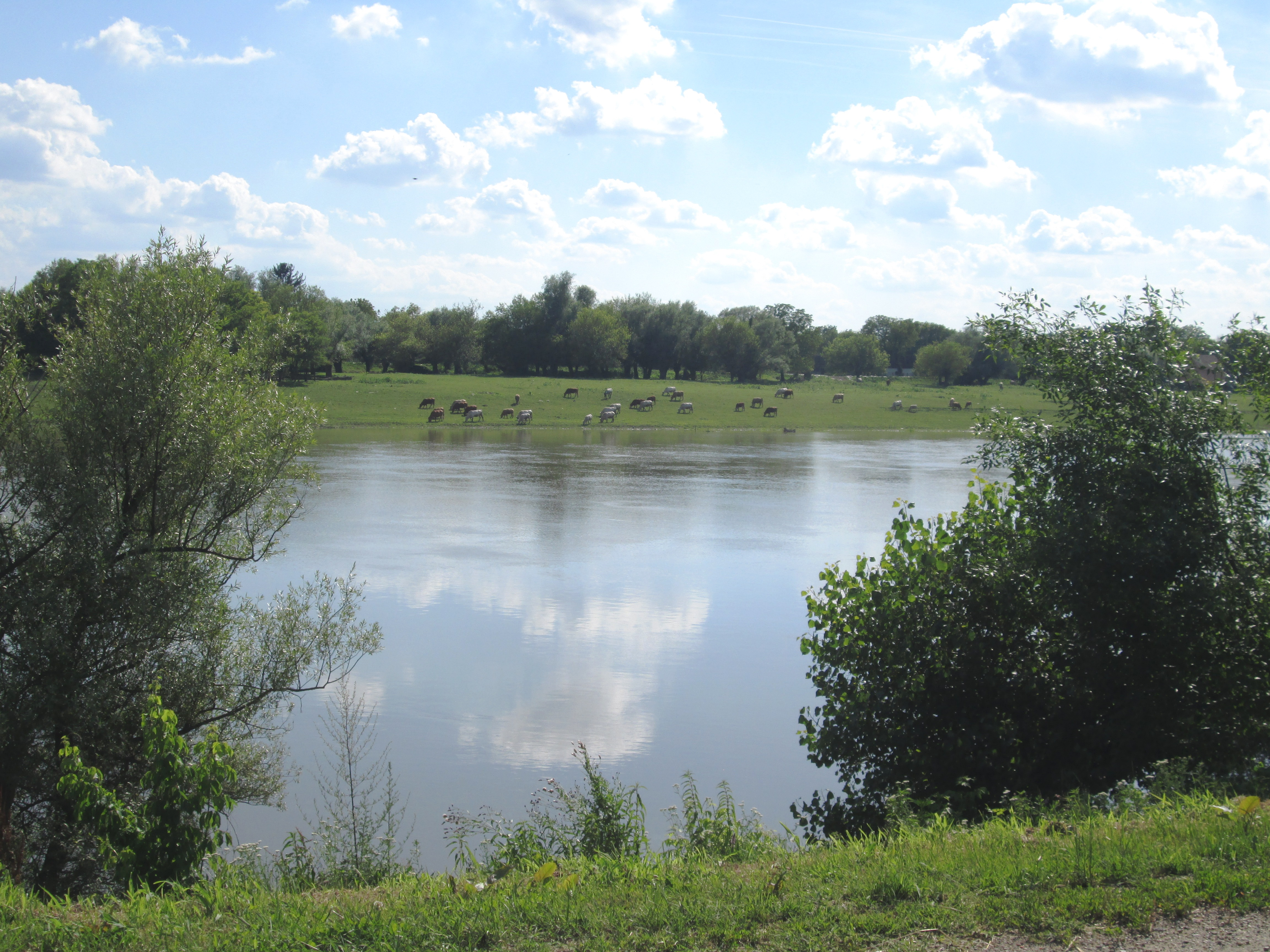 Nature Park Lonjsko Polje in Croatia